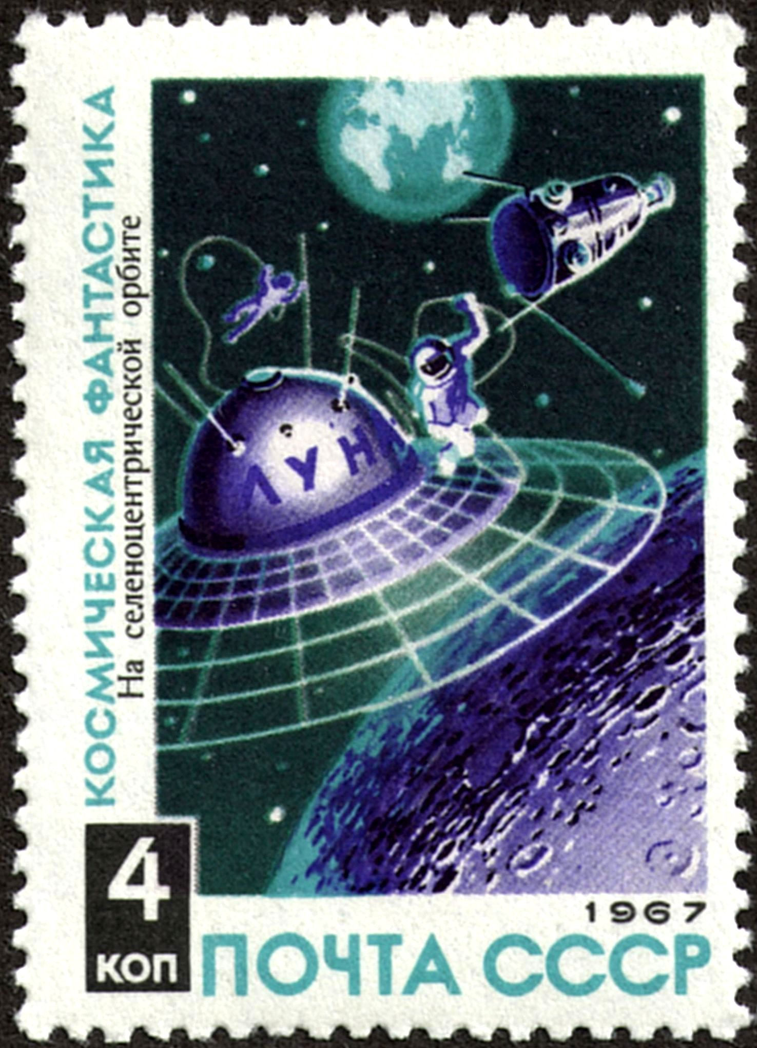 Science fiction.In Selenocentric Orbit by Alexey Leonov and Andrey Sokolov (1931–2007). Tempera, paper. 1966–1967[1].The stamp of the Soviet Union, 4 kopecks, 20 October 1967, CPA Catalogue No 3545, Michel No 3403, Scott No 3382, Yvert No 3282. Coated paper. Offset printing. Perforation: comb 12×12½. Size of the stamp: 30×42 mm. Print run: 6,000,000.